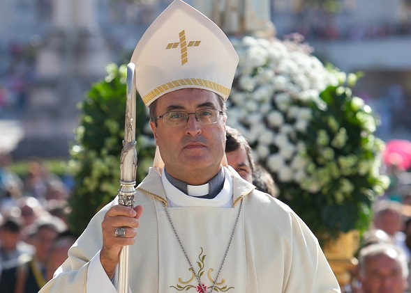 Manuel Linda em Fátima, Presidiu à Peregrinação Aniversária de 13 de Setembro de 2014